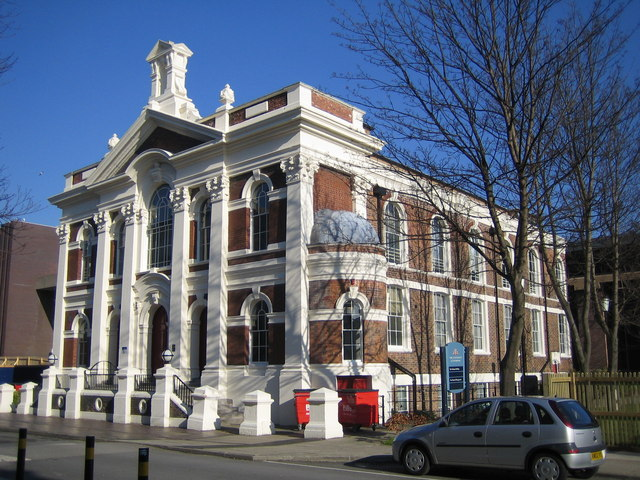 Liverpool: The Chatham Building, University of Liverpool The Grade II listed Chatham Building in Chatham Street is now the home of the University's School of Management with a £10 million modern extension behind it. The building was originally a chapel dating from 1865. The contrast with other buildings in this grid square such as 343467 is quite remarkable.